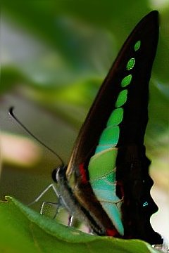 Common Bluebottle butterfly